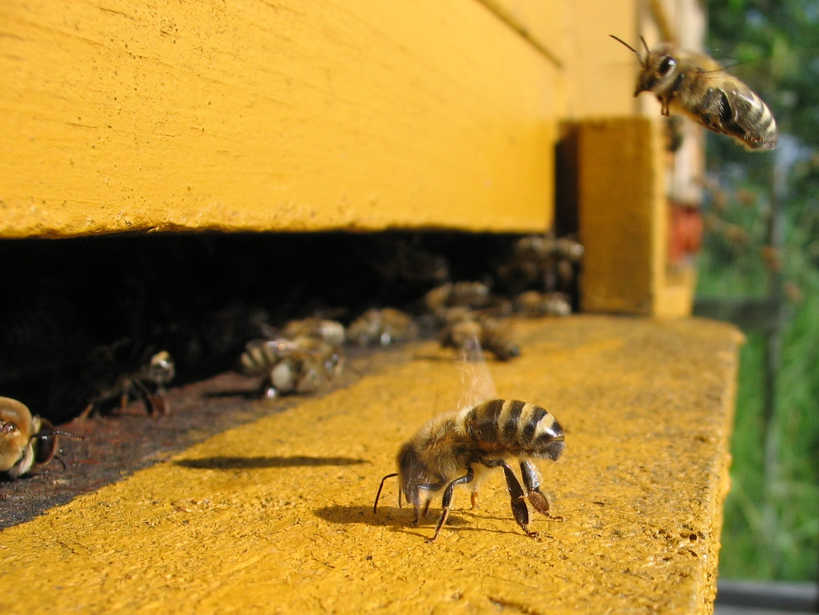 A honeybee on an apiary, spreading pheromones to 'call back' her colleagues, showing her Nassanoff gland. Location: Tübingen-Hagelloch.